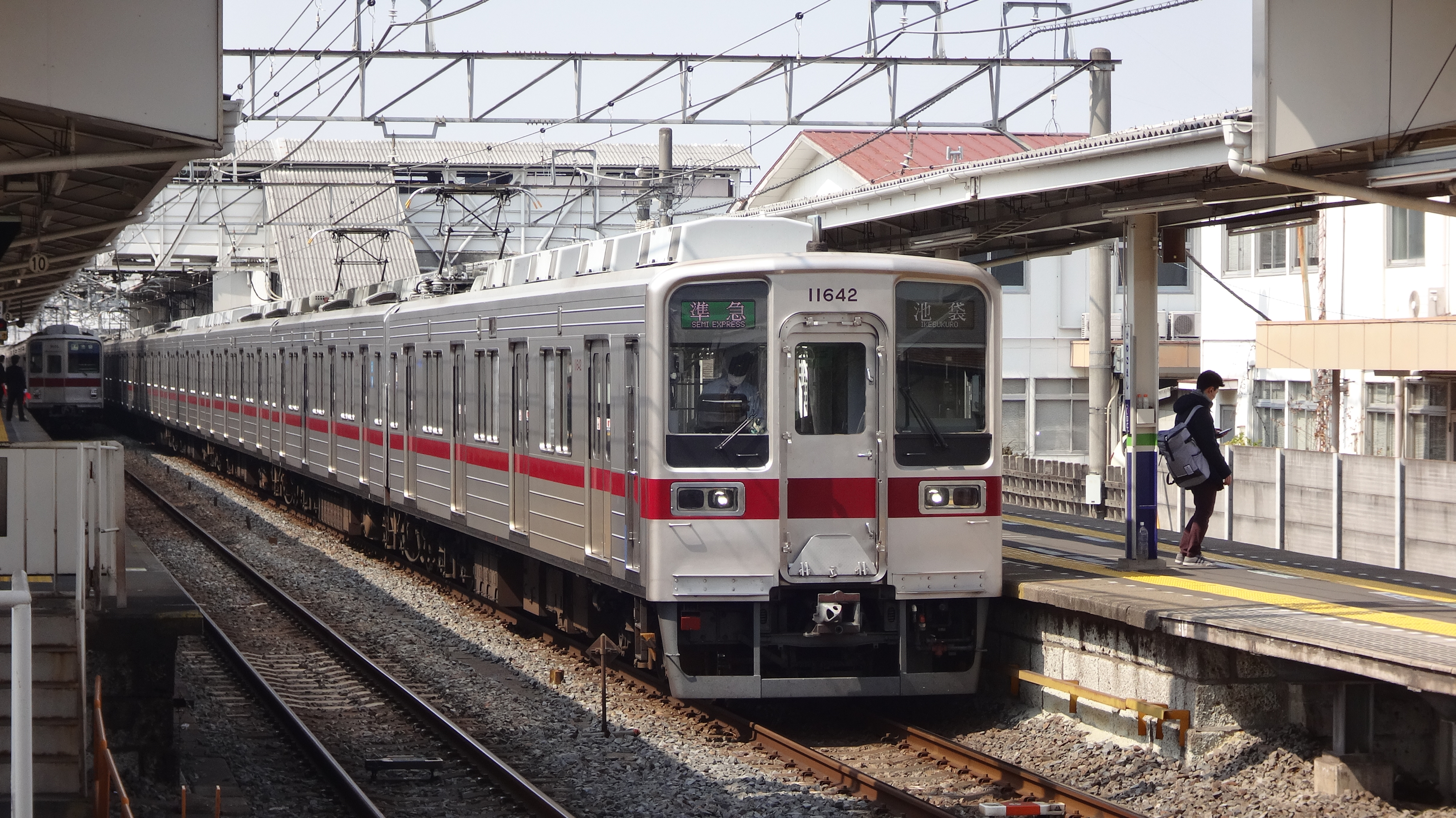 Tobu Railway 10030 series EMU set 11642 at Kawagoeshi Station on a Tobu Tojo Line Ikebukuro-bound semi express service